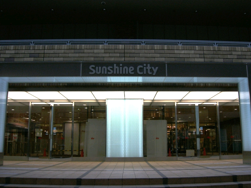 Sunshine City in Ikebukuro, Tokyo, Japan